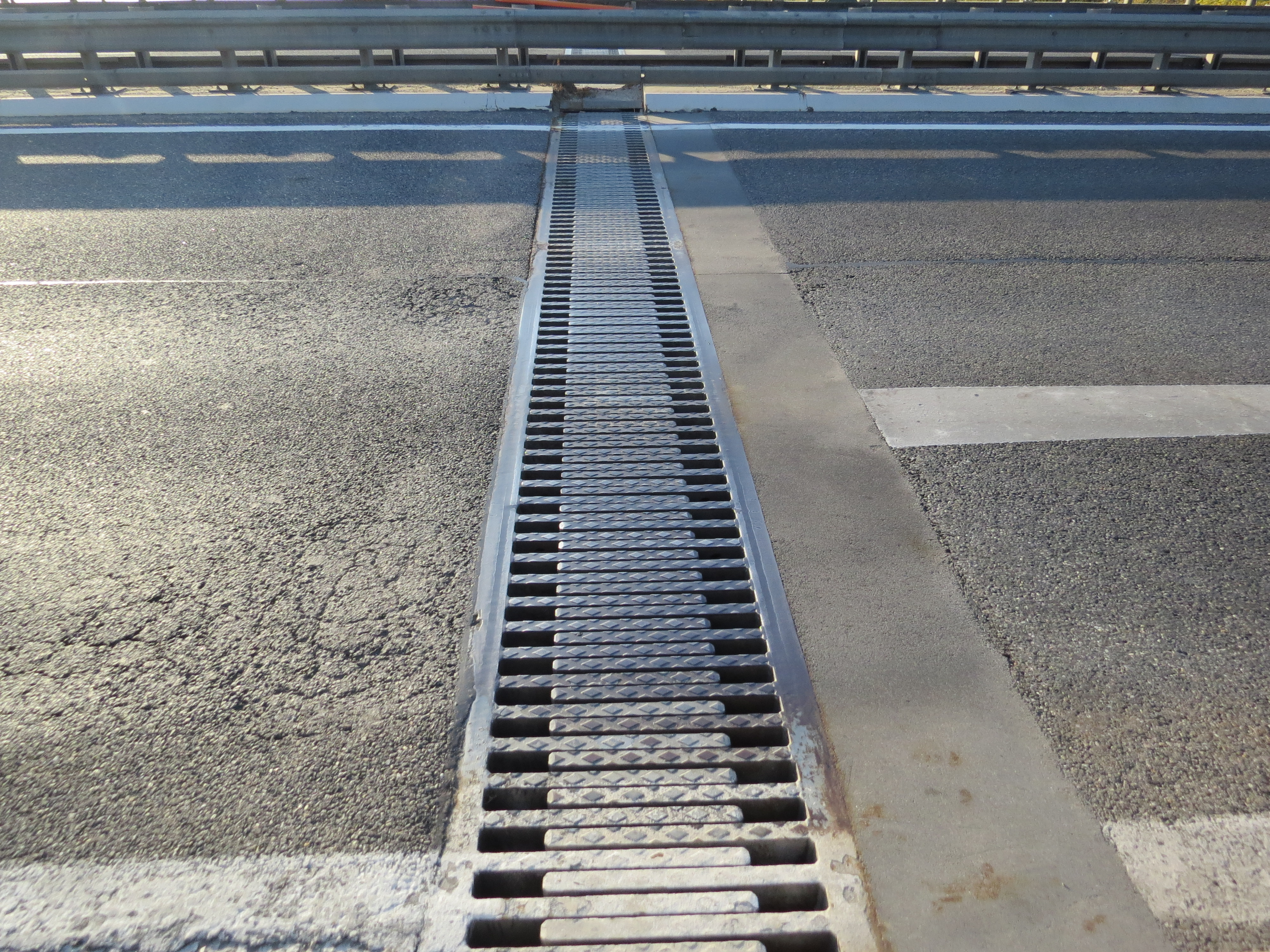 Bridge expansion joint at Donaubrücke in Krems an der Donau, Austria